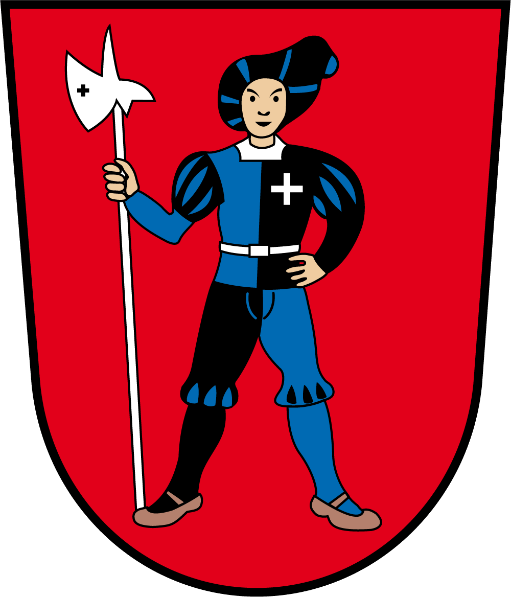 Coat of arms of Tafers and Sensbezirk